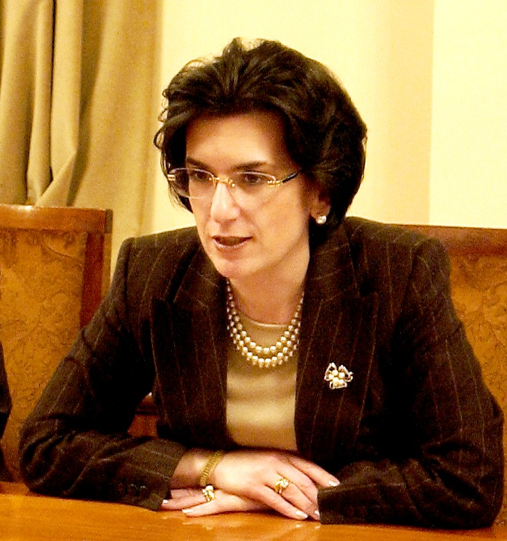 Georgia's Acting President Nino Burjanadze (center) and Secretary of Defense Donald H. Rumsfeld (left foreground) meet in Tbilisi, Georgia, on Dec. 5, 2003. Rumsfeld is in Georgia to meet with Burjanadze, Minister of Defense Gen. David Tevzadze and to visit with U.S. troops deployed there.